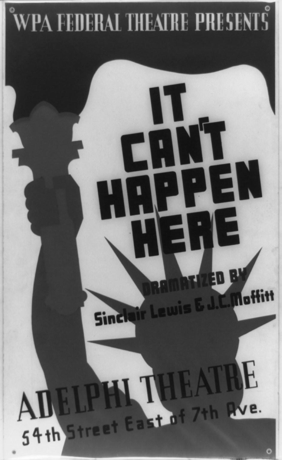 Title: WPA Federal Theatre presents "It can't happen here" Abstract: Poster for Federal Theatre Project presentation of "It Can't Happen Here" at the Adelphi Theatre, 54th Street, east of 7th Ave., showing the Statue of Liberty. Physical description: 1 print (poster) : silkscreen, color. Notes: Work Projects Administration Poster Collection (Library of Congress).